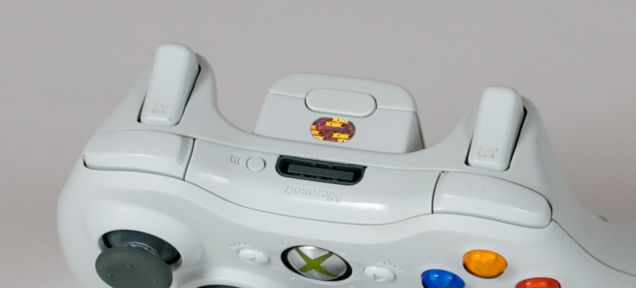 Xbox 360 Controller (wireless, white) shoulder-buttons und -triggers.